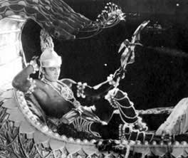 Rudoph Valentino as Amos Judd from the American film The Young Rajah (1922).